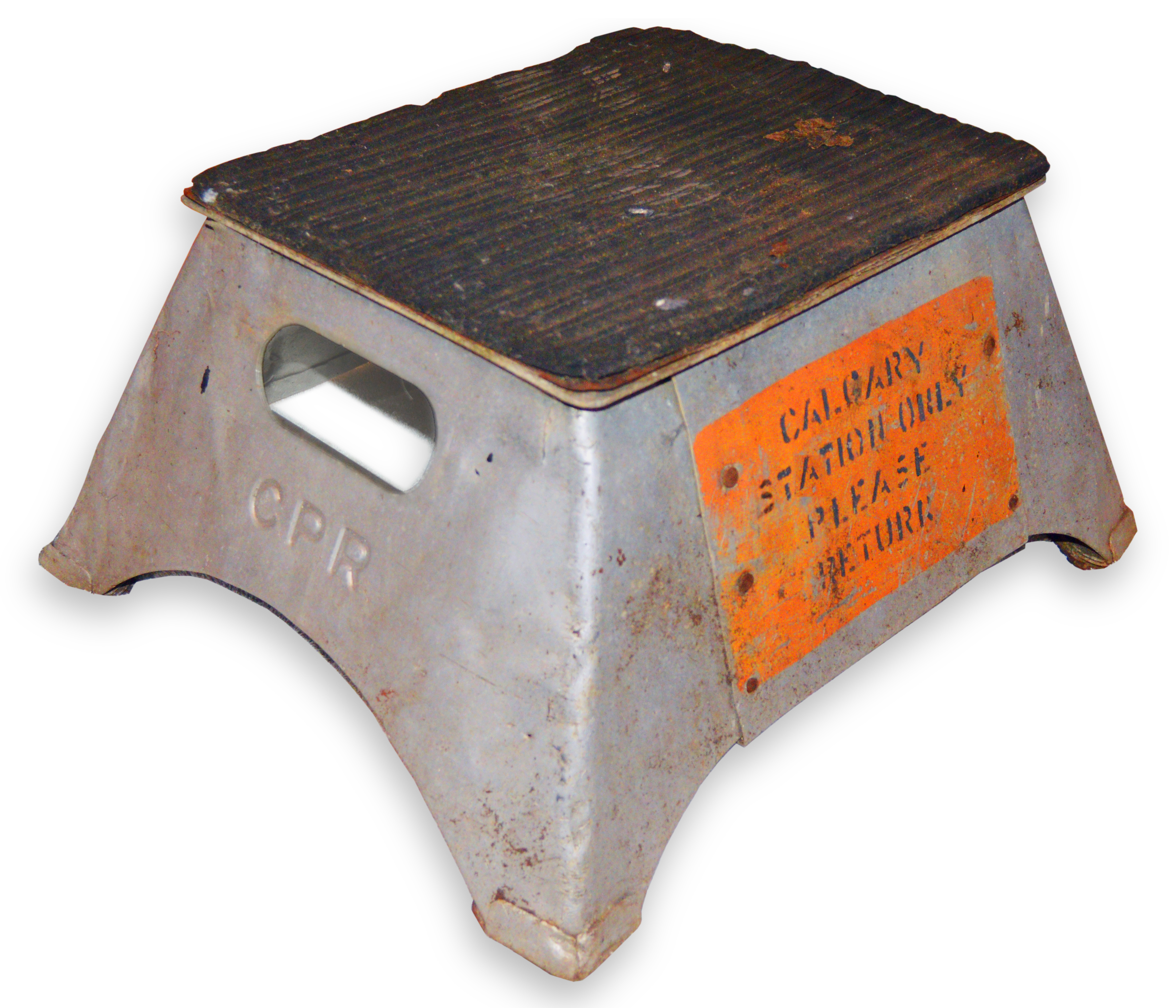 Canadian Pacific Railway train boarding step stool, Calgary, Alberta station